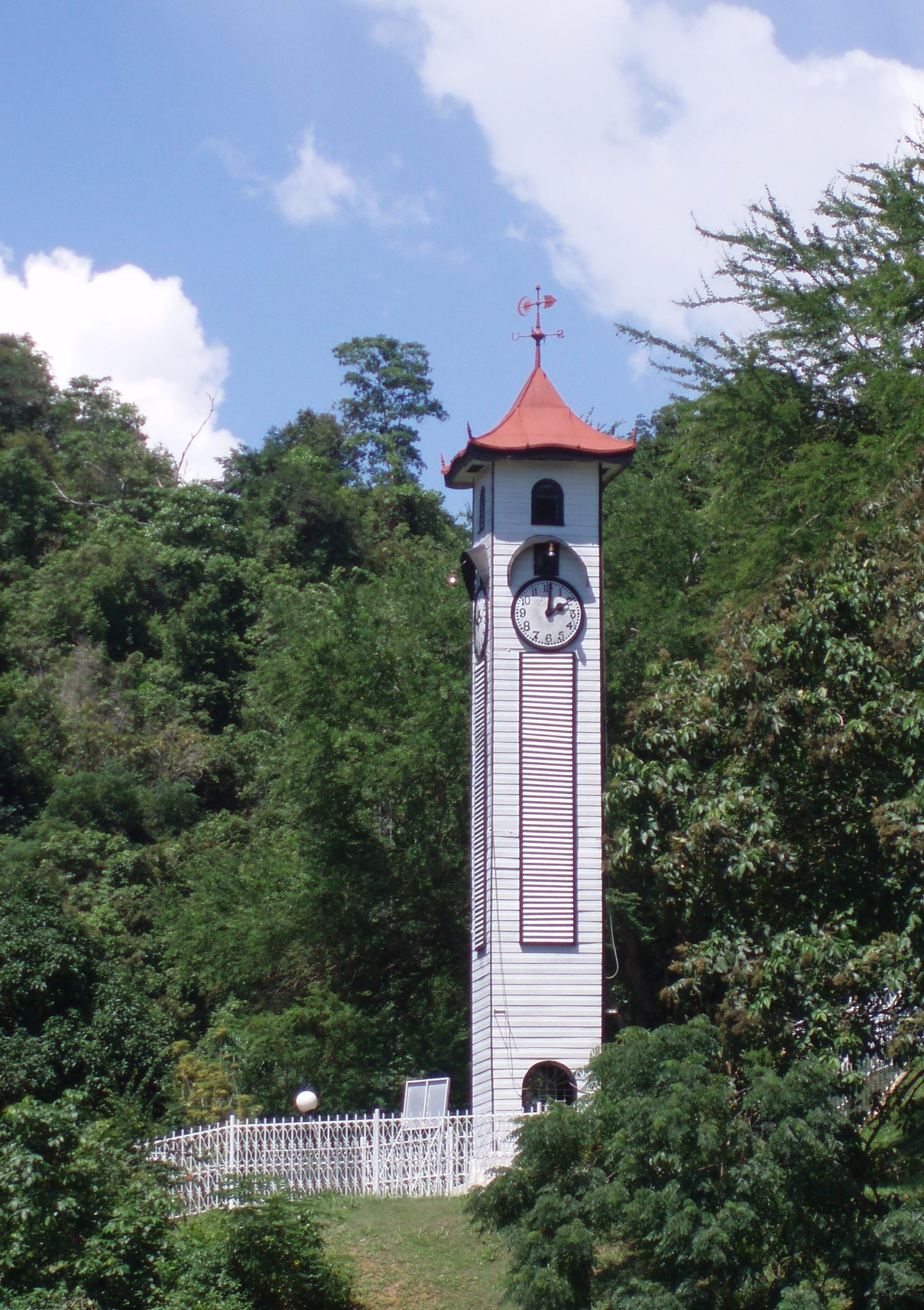 Atkinson Clock Tower, Kota Kinabalu. Atkinson Clock Tower, one of only three pre-world war II structures still existing in Kota Kinabalu, Sabah, Malaysia.